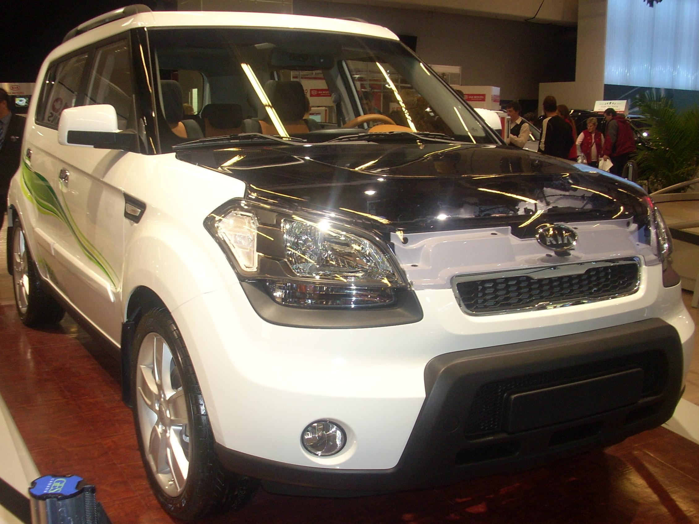 Kia Eco-Soul photographed at the 2009 Montreal International Auto Show